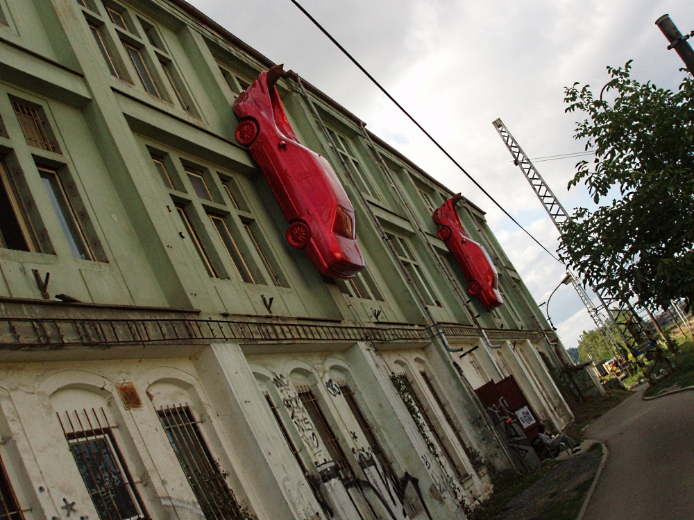 Meetfactory is a gallery in Prague 5, Czech Republic